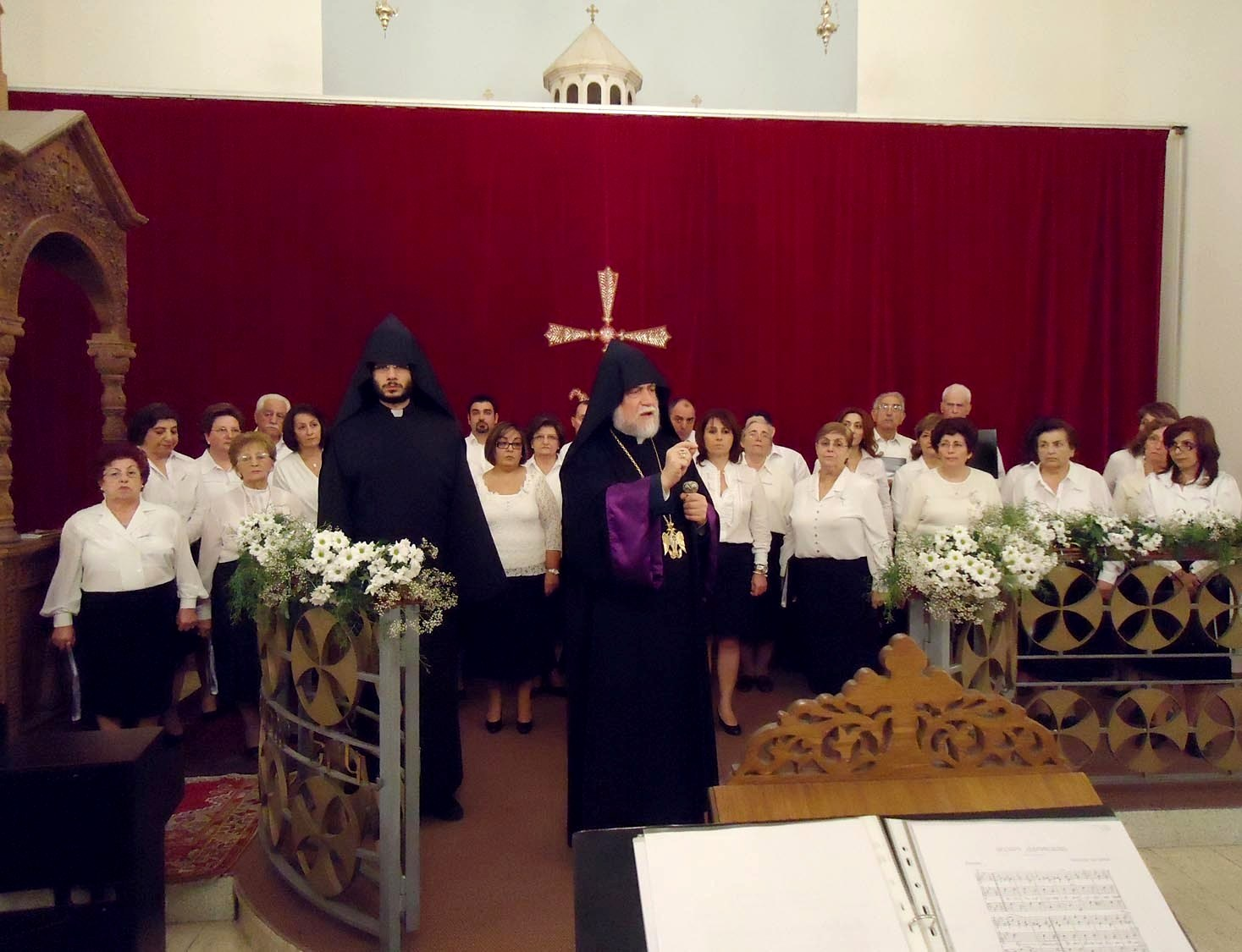 The Sourp Asdvadzadzin choir performing in Nicosia (2011)